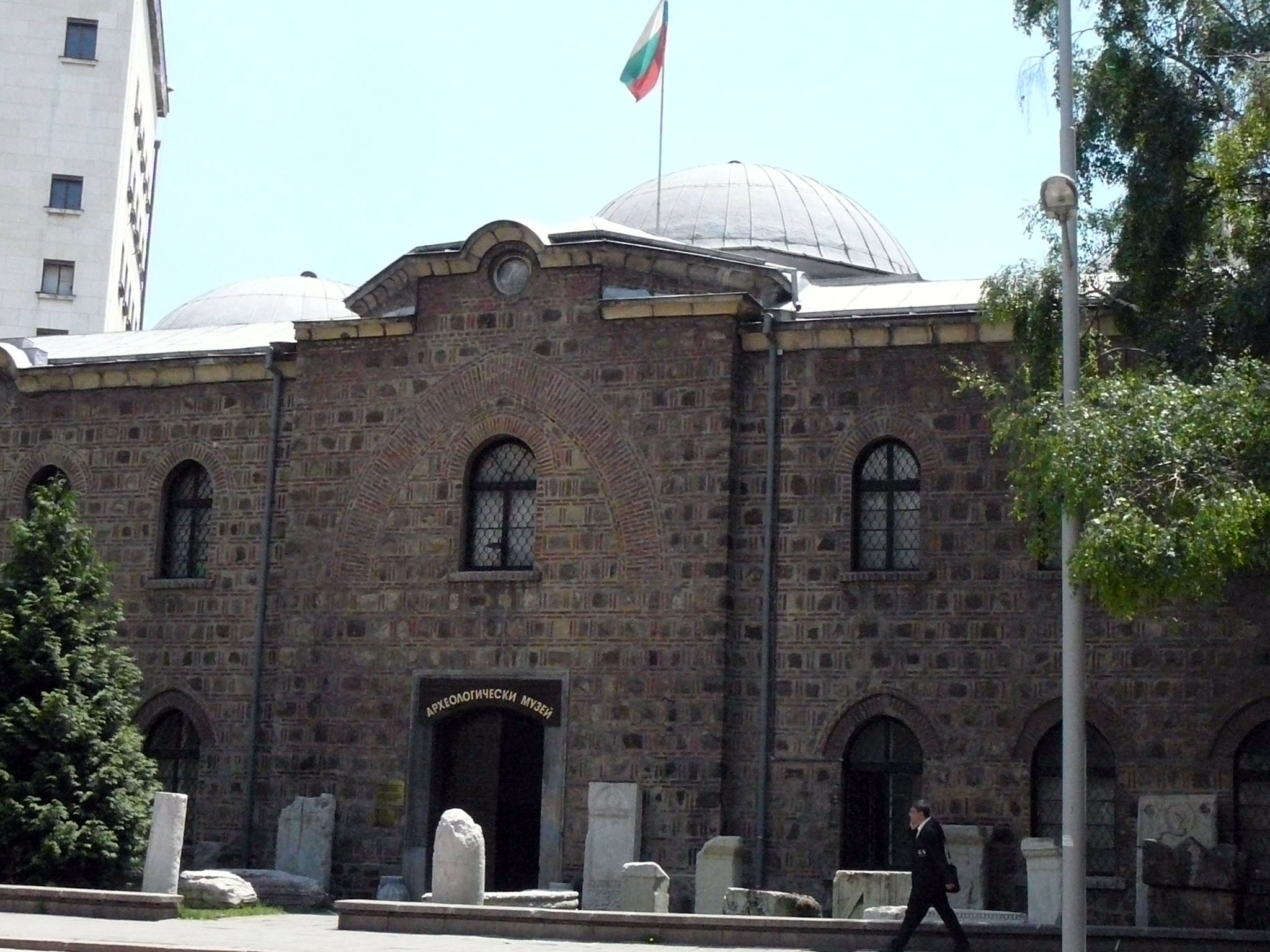 National Archaeological Museum of Bulgaria